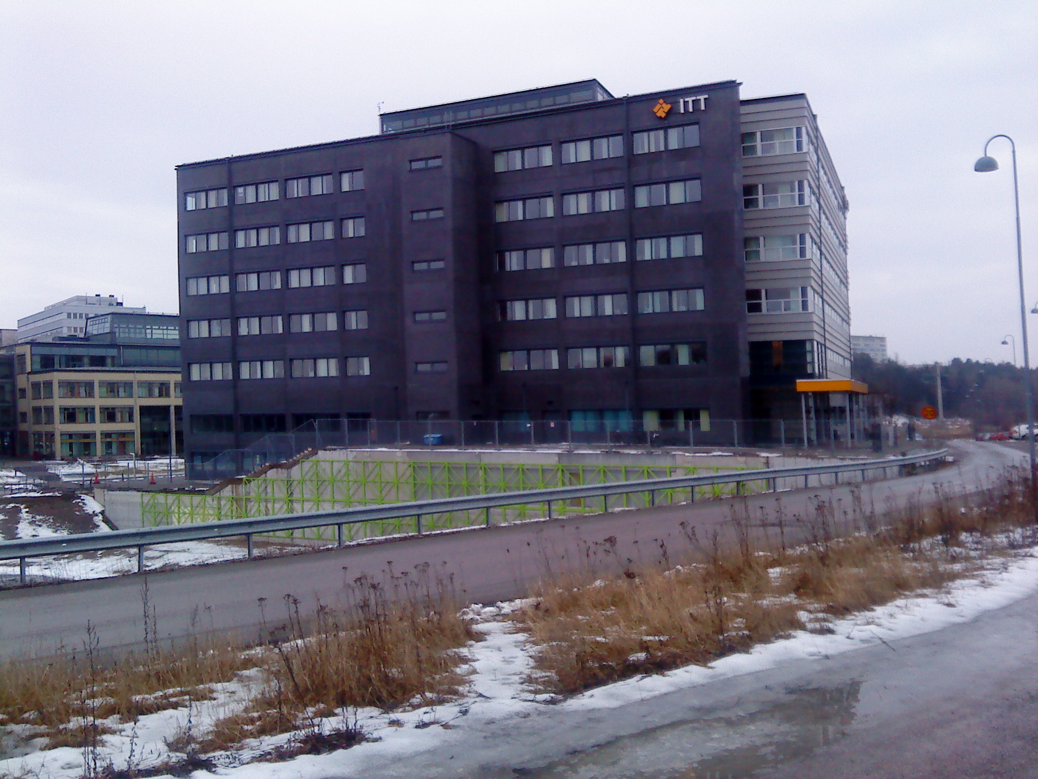 ITT Water & Wastewater in Sundbyberg